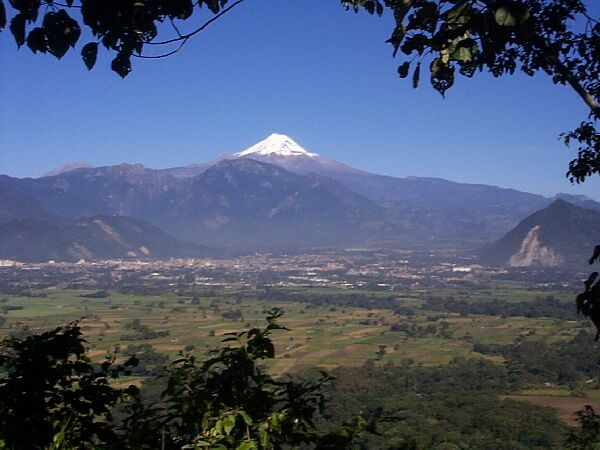 Picture of the valley of Orizaba, with the city in the middle distance and the Pico de Orizaba on the horizon. Taken by David Tuggy (